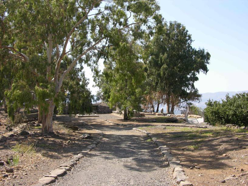 Tel Faher, memorial site